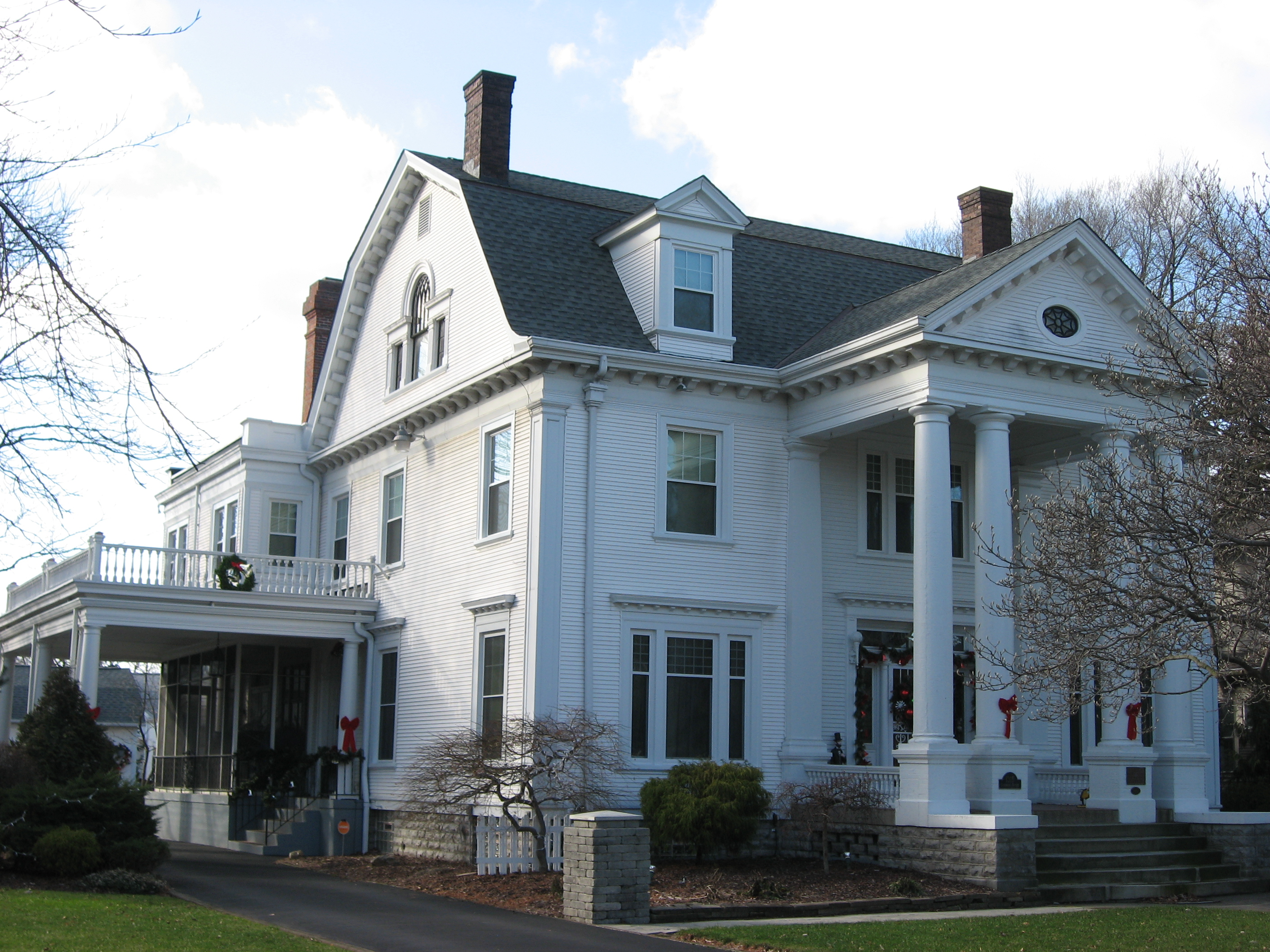 Front and southern side of the Taylor-Frohman House, located at 1315 Columbus Avenue in Sandusky, Ohio, United States. Built in 1906, it is listed on the National Register of Historic Places.